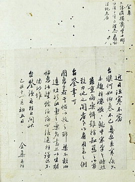 Letter of Shin Dokjae Kim Jip